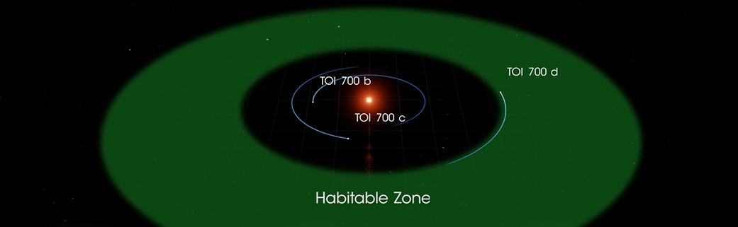 This illustration of TOI 700 d is based on several simulated environments for an ocean-covered version of the planet. For more information on TESS, visit: and